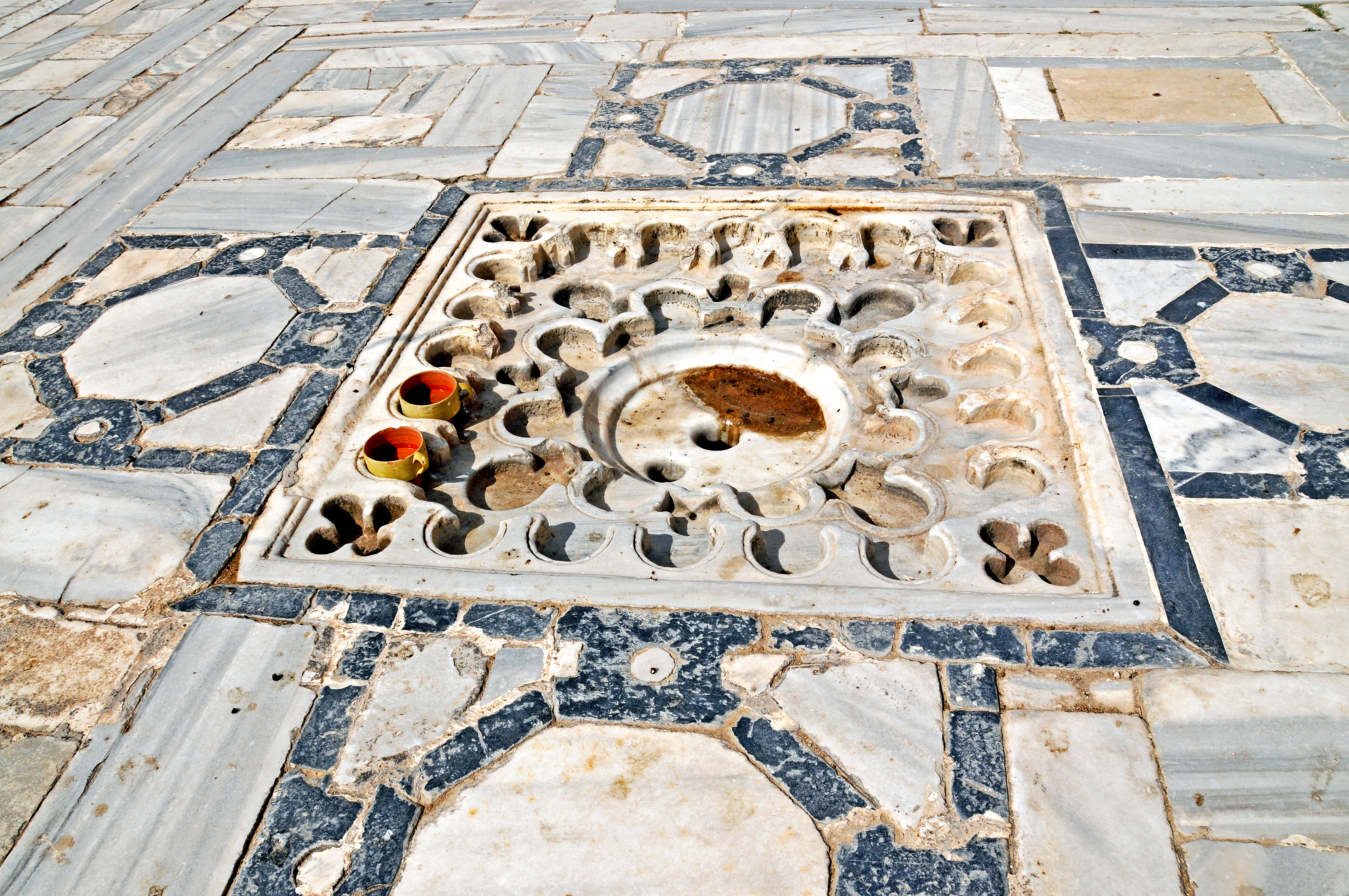 Rain water collector in the courtyard of the Great Mosque of Kairouan (also called the Mosque of Uqba), in Tunisia.